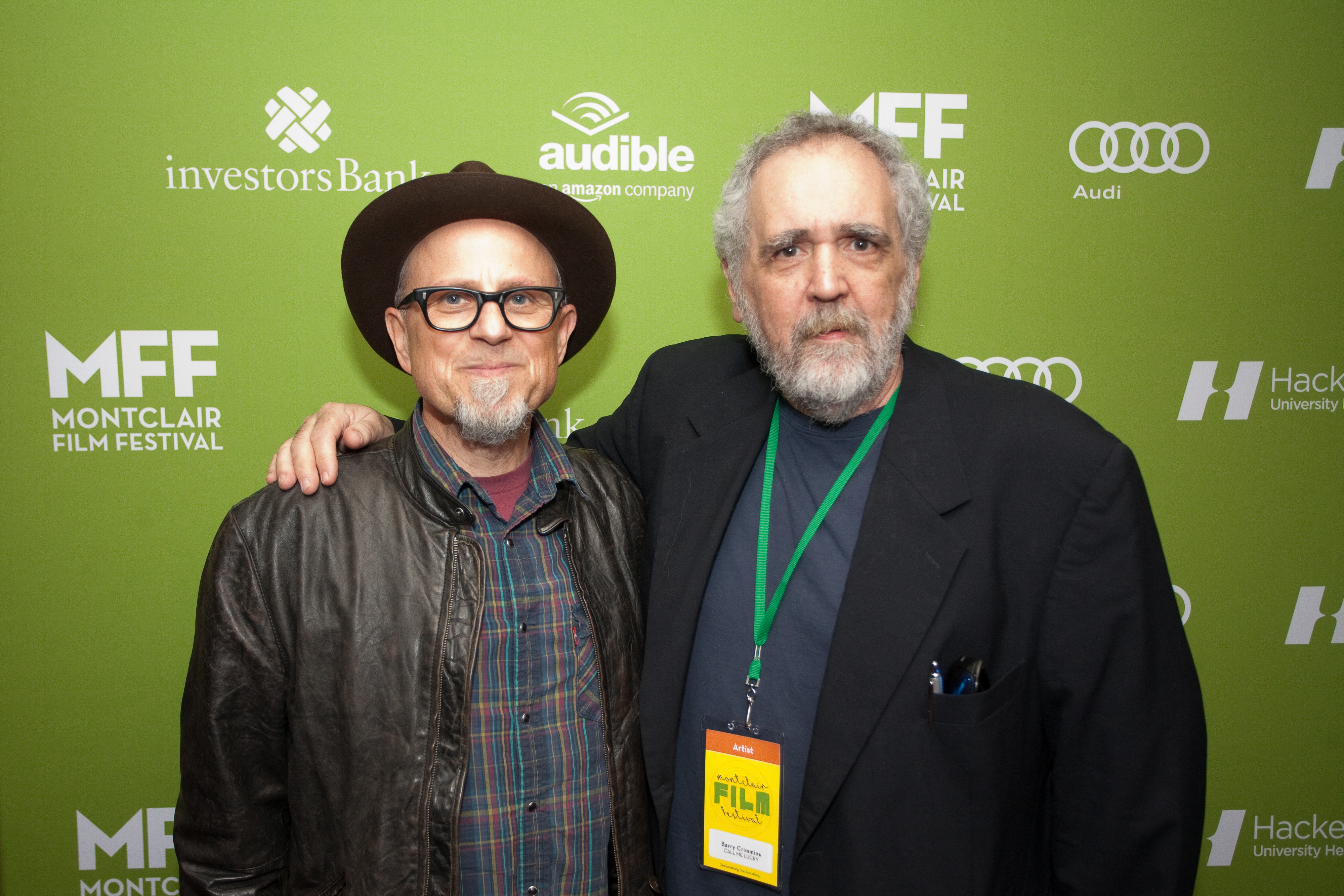 Crimmins and Goldthwait premiere of CallMeLuckyMFF 2015